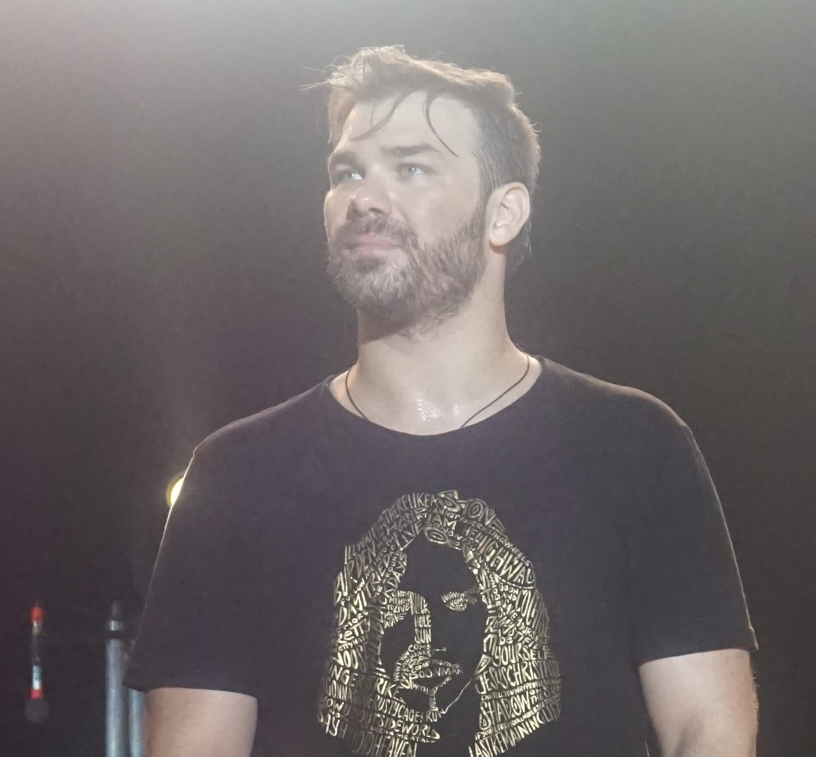 Giorgos Sampanis